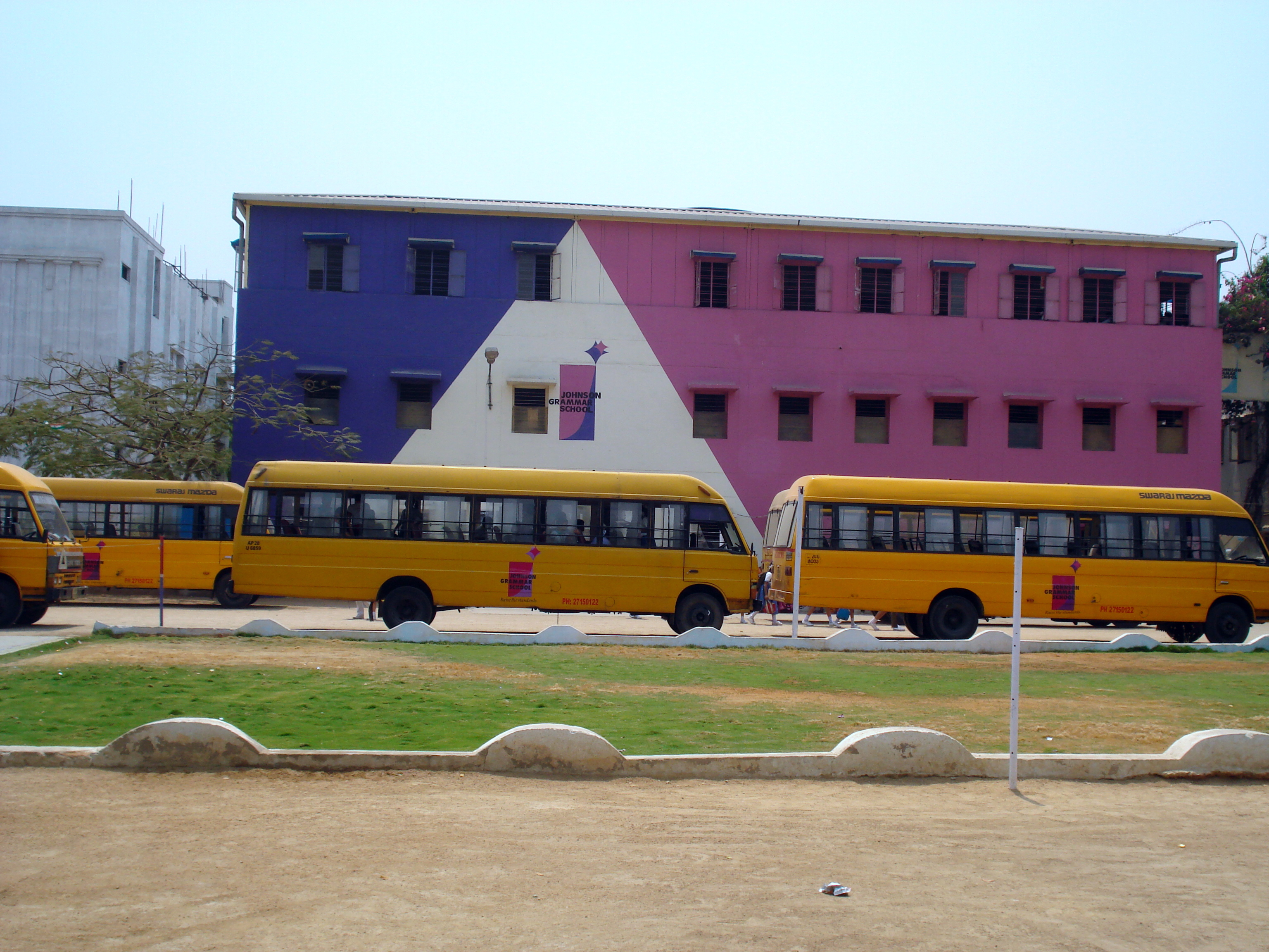 A view of the main building of Johnson Grammar School